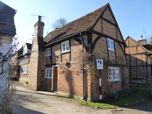 Photograph of 'Sleepy Cottage' in the village of Turville, Buckinghamshire. Named after former resident Ellen Sadler, who, aged eleven, purportedly fell asleep and did not wake for nine years. Also used during filming of BBC TV sitcom The Vicar of Dibley.